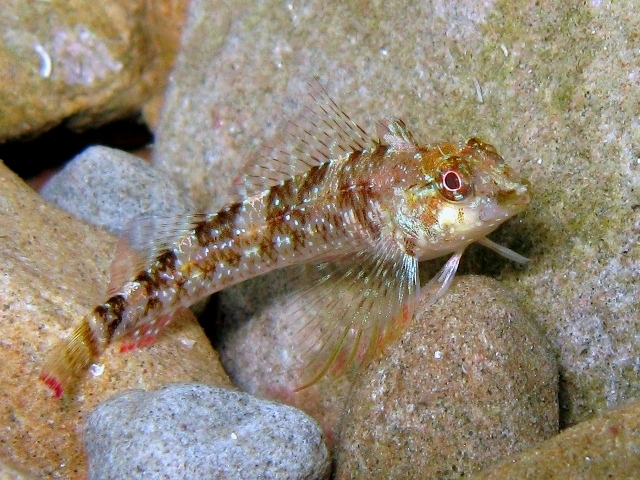 Tripterygion tripteronotus photographed in Rab, Croatia